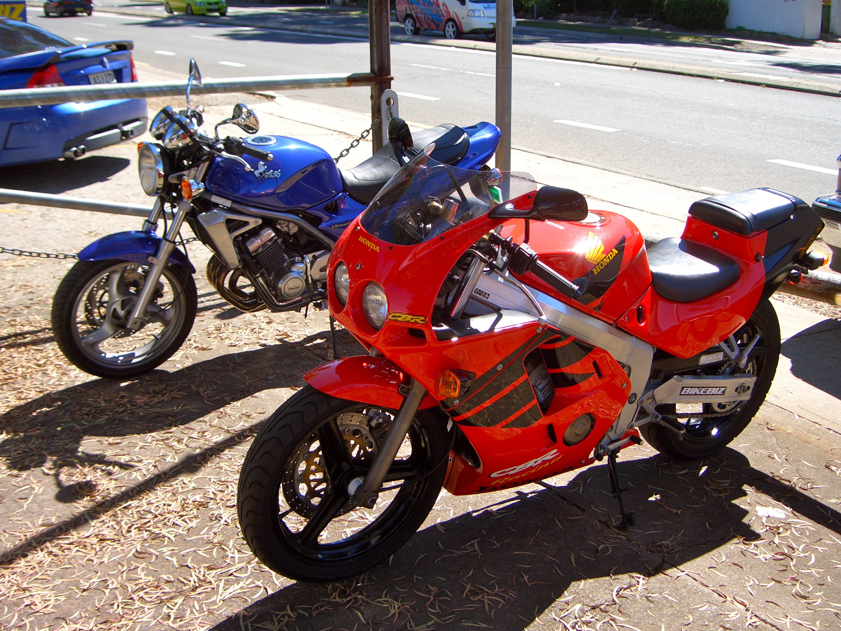 A couple screamers, both capable of 19,000 rpm!